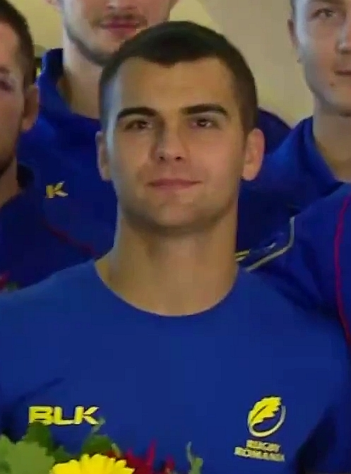 Romanian international rugby union player, Tudorel Bratu, is seen during a press conference in October 2015 shortly before arriving from the 2015 Rugby World Cup